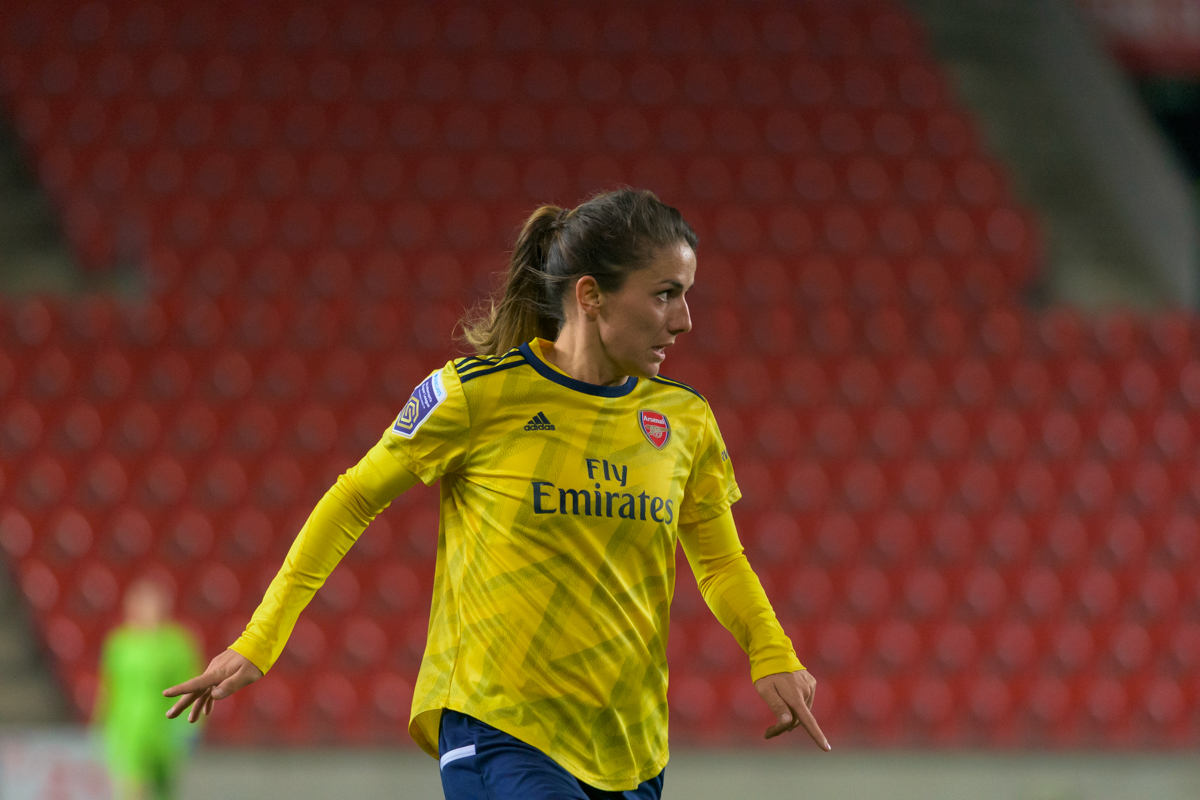 Daniëlle van de Donk during the match vs Slavia Praha (women), October 2019